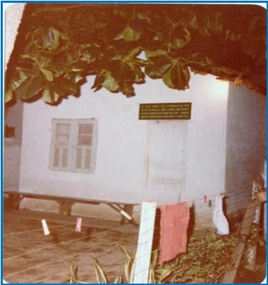 W. W. da Matta e Silva by & Alexandre Oseas